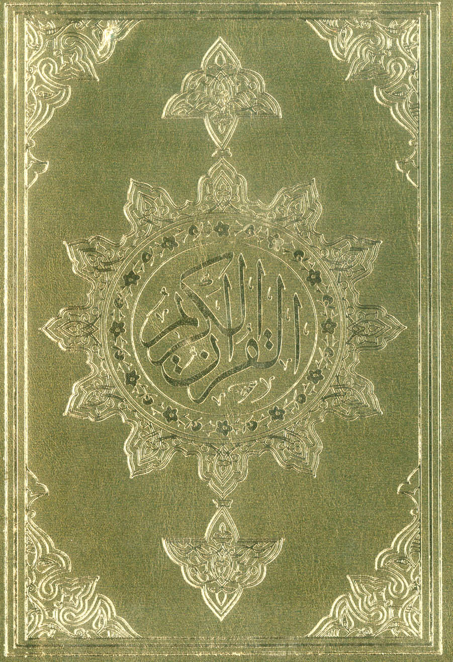 قرآن با ترجمه کهن ابوبکر عتیق نیشابوری